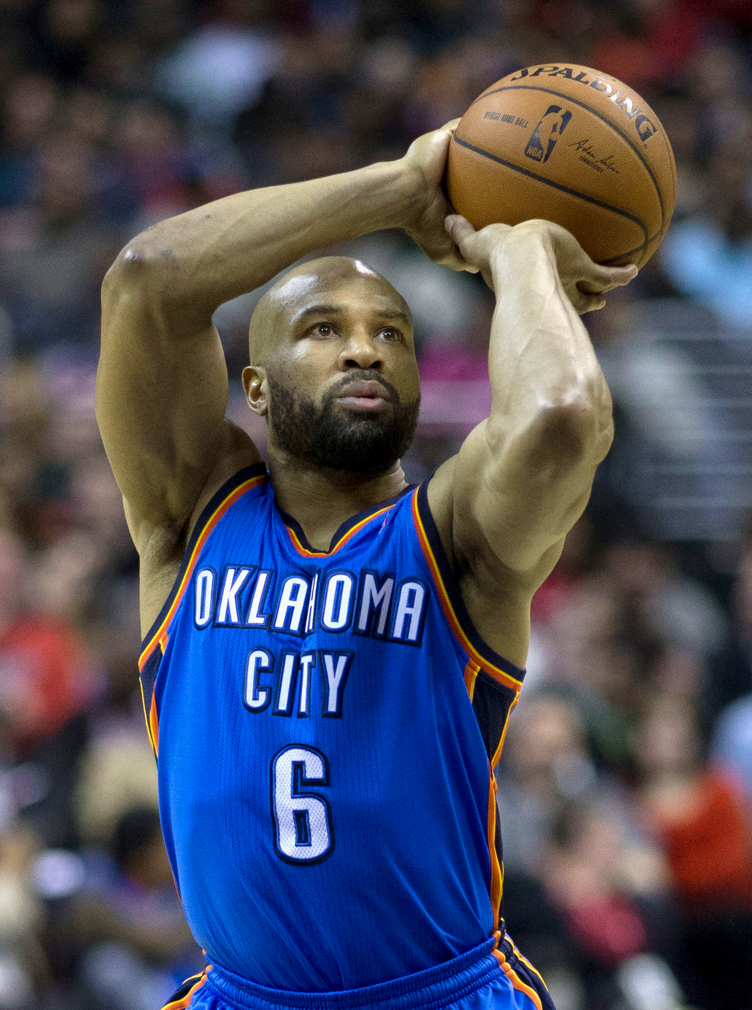 Thunder at Wizards 2/1/14